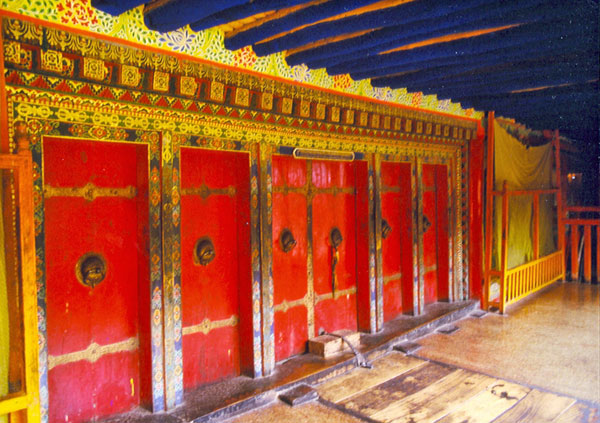 Potala Palace. Lhasa